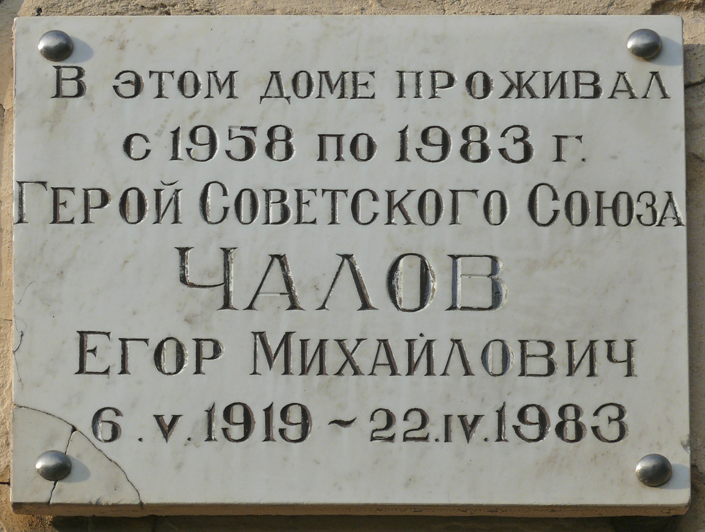 Memory plaque on the house №6 Liudogoshcha street, Veliky Novgorod, Russia